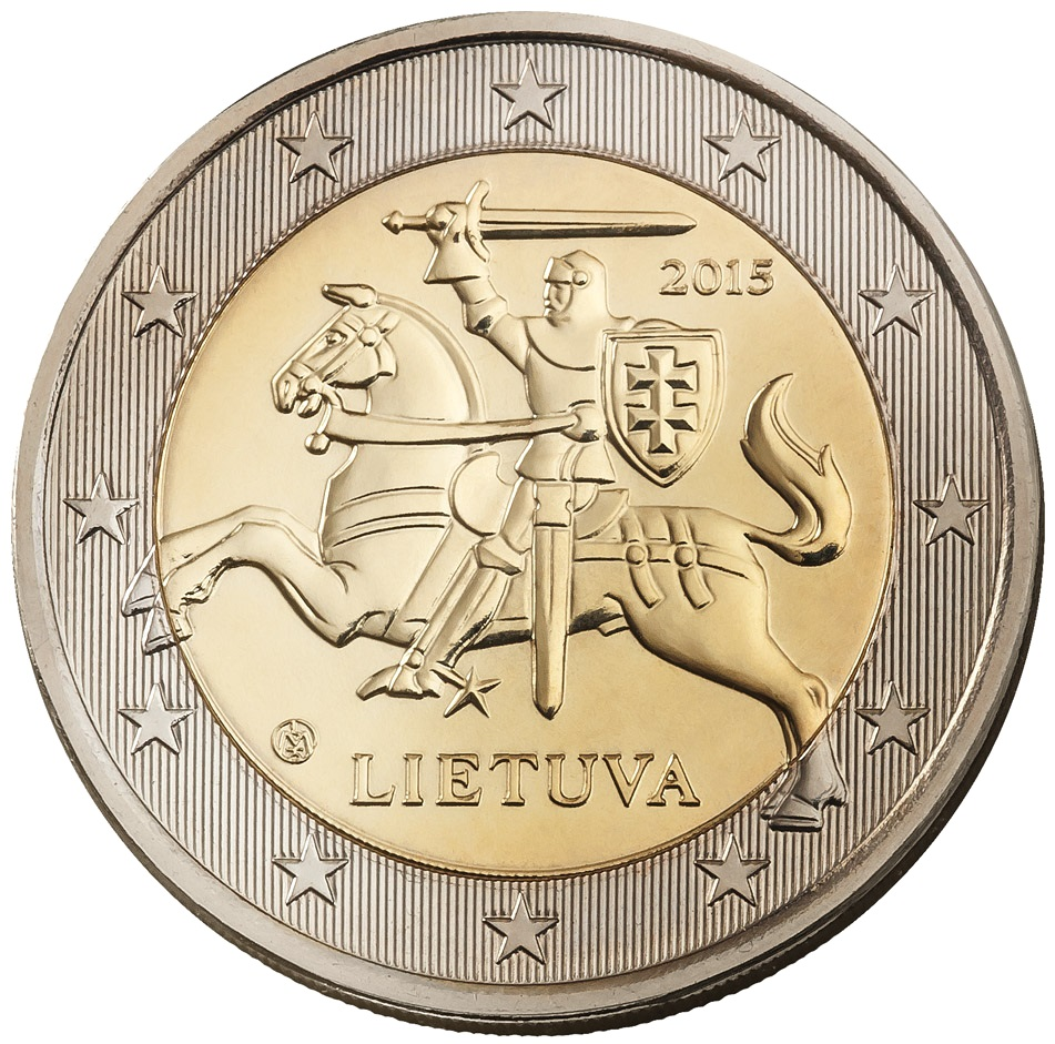 2 Euro Lithuania 2015